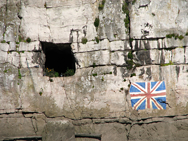 Chepstow - Gloucester Hole and Union Jack. Quoting from "The Town of Chepstow" by Ivor Waters : "This cave in the Tutshill cliff can be seen from Chepstow bridge and may be reached by boat at high tide. The entrance is about five feet six inches square, and runs in for about twelve feet. The cave was a natural opening in the limestone which was enlarged so that its greatest depth and greatest breadth are 27 feet, and its height at one point is 15 feet." It is supposed to date back to the mid 17C and supposedly has been used for storing gunpowder, dynamite and even tea. It can only be entered at high tide. The observant will notice a couple of pigeons in and next to the entrance.